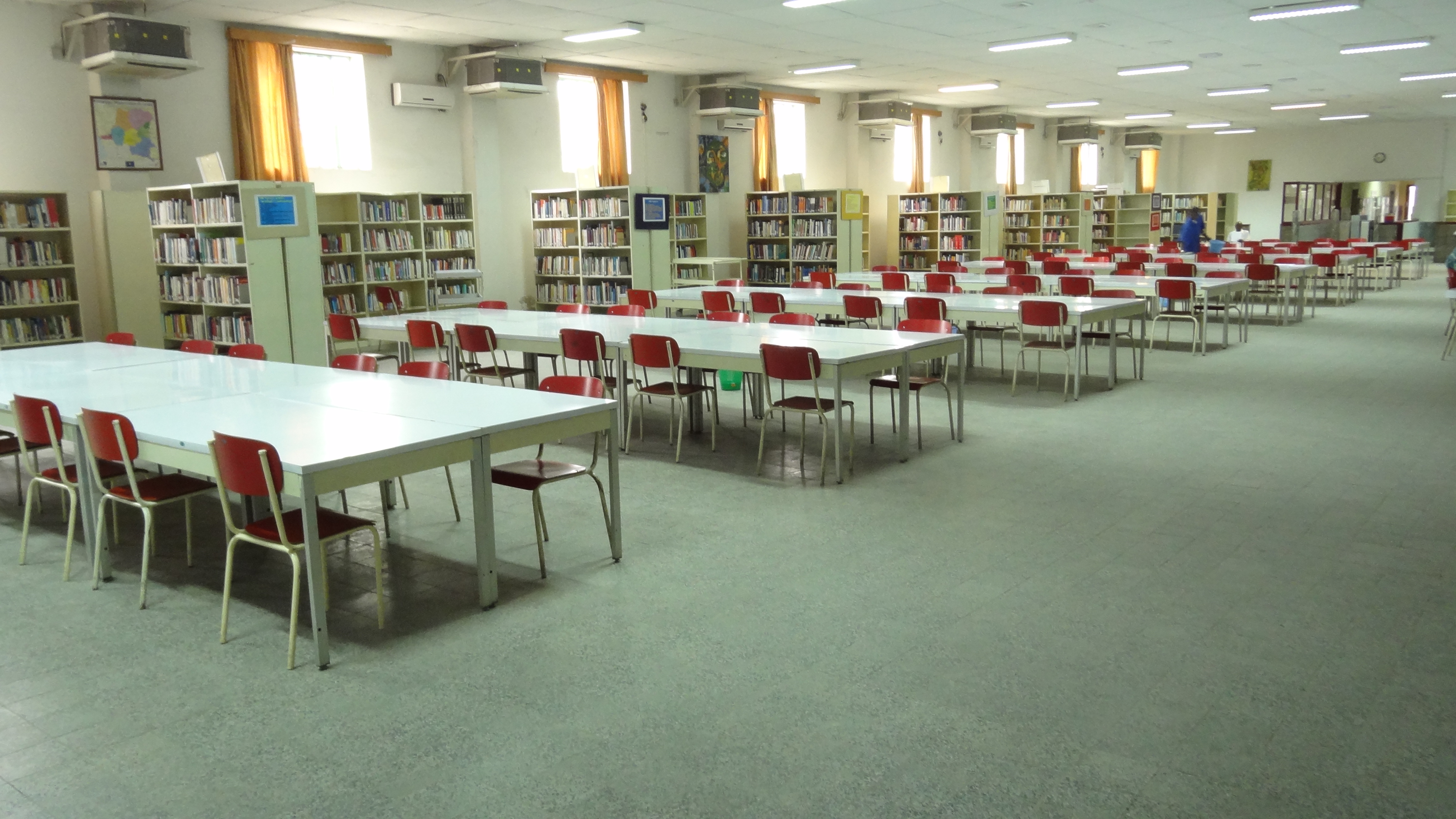 CEDESURK library room, Kinshasa, RDC